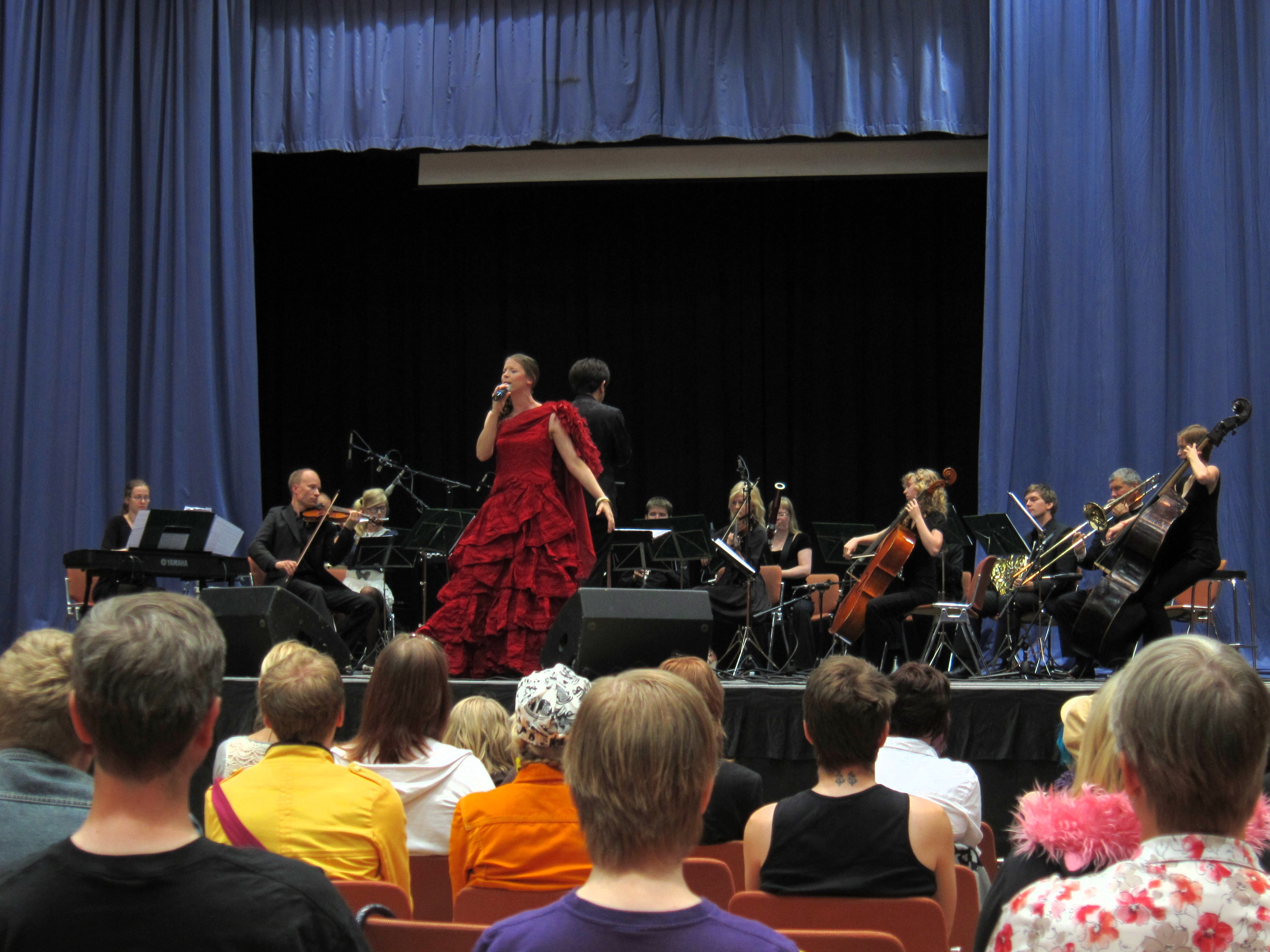 HIMEKA (Catherine St-Onge), Yukihiro Notsu and Suomen Nuoriso-Orkesteri at Finncon/Animecon 2011. Place of the performance is Caribia hall.